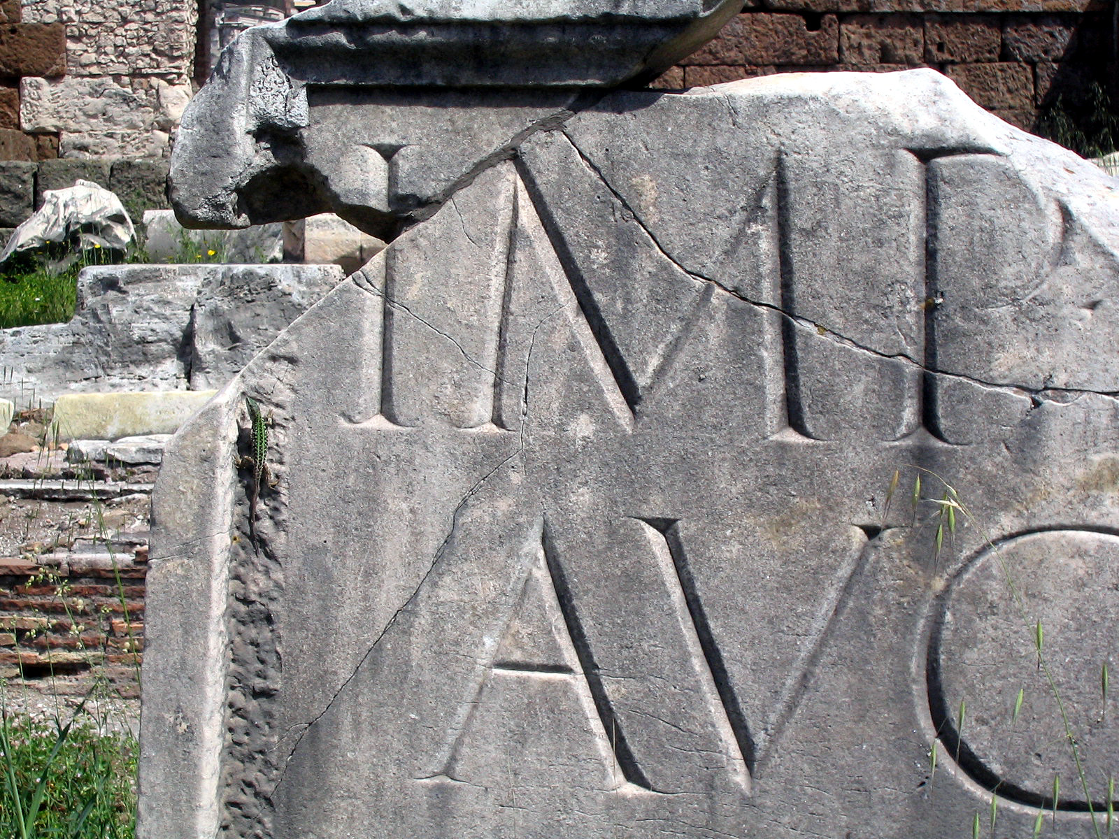 The inscription to IMP AUG, Imperator Augustus, is just another hot rock to this lizard. Rome.